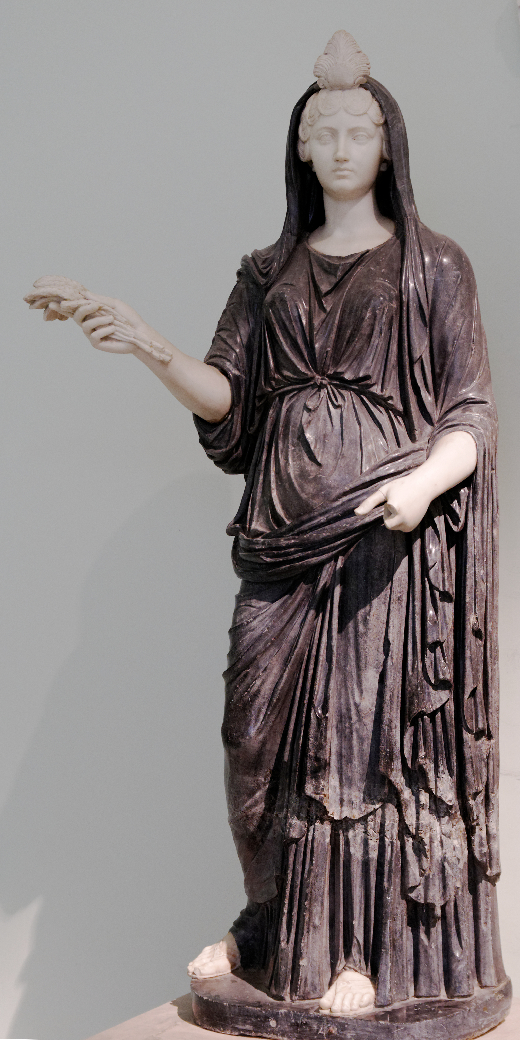 Fortuna-Isis restored as Faustina the Younger as Demeter. The head, hands and legs are modern restorations.